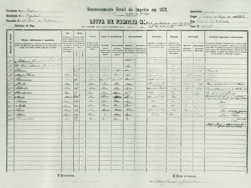 Lista de família preenchida pelo chefe e não recolhido pelo agente recenseador. Original pertencente a família do bibliógrafo Hélio Gravatá, cujos antepassados residiam em Salvador na província da Bahia nesta época. Lista de família preenchida pelo chefe e não recolhido pelo agente recenseador. Original pertencente a família do bibliógrafo Hélio Gravatá, cujos antepassados residiam em Salvador na província da Bahia nesta época.